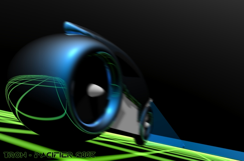 Lightcycle from the movie Tron, completely done in Bryce.